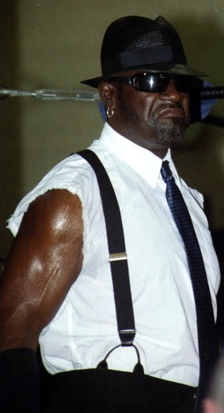 Professional wrestler Curtis Hughes in May 2009.